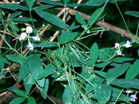 Glycine tabacina at Eastwood, NSW